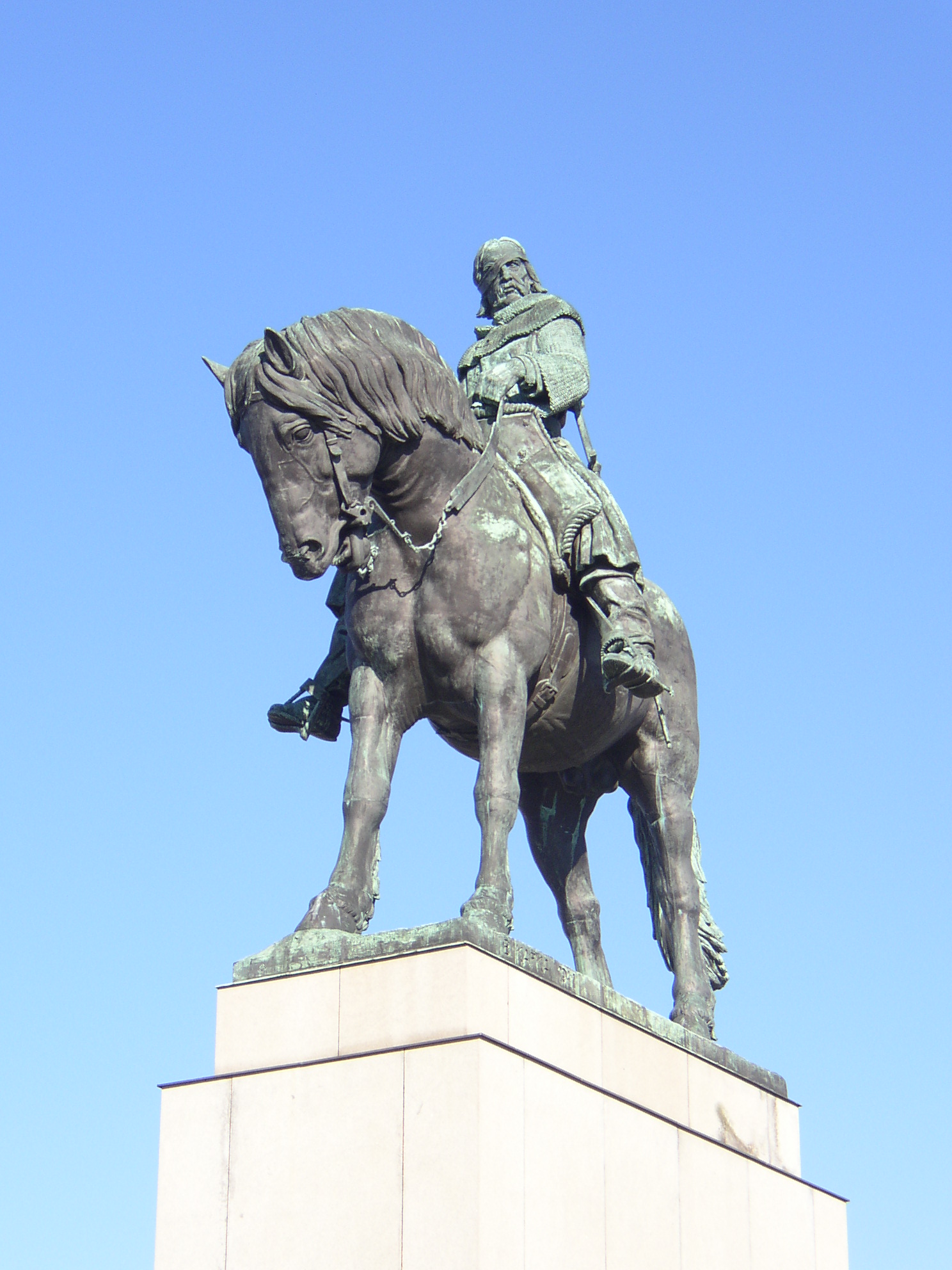 Equestrian statue of Jan Žižka by Bohumil Kafka at National Memorial on Vítkov Hill in Prague, Czech Republic.